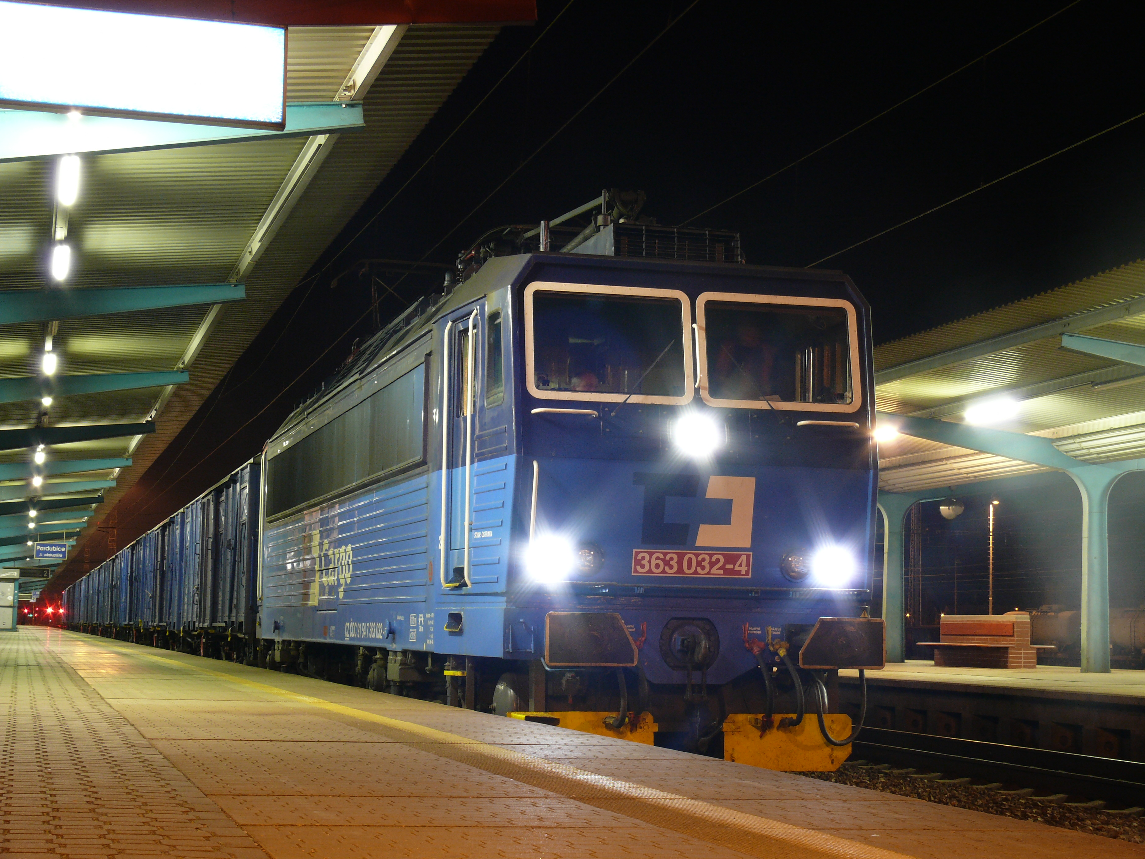 Postal trains. ČD Cargo 363.032 + Czech Post. Night express (Czech Republic).